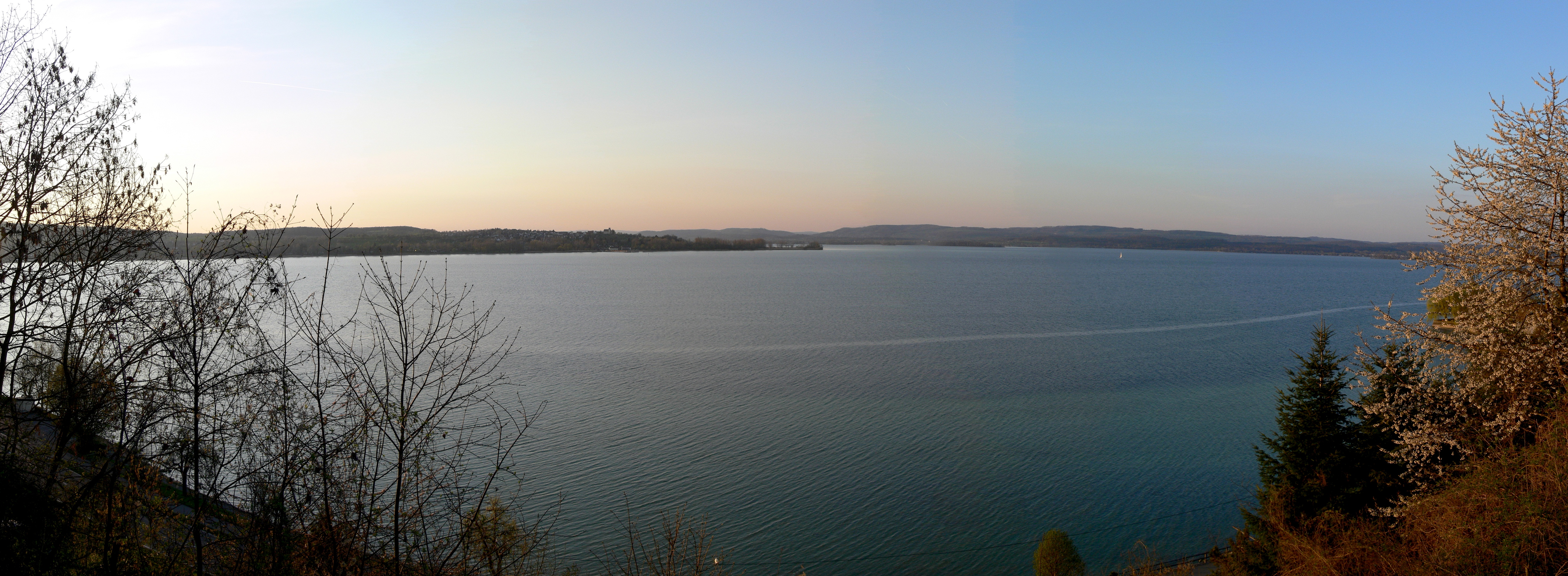 A panoramic photograph of the Lower Lake (Untersee).